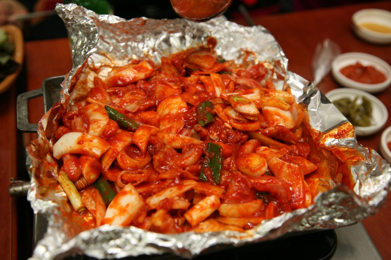 A view of a Busan, South Korea